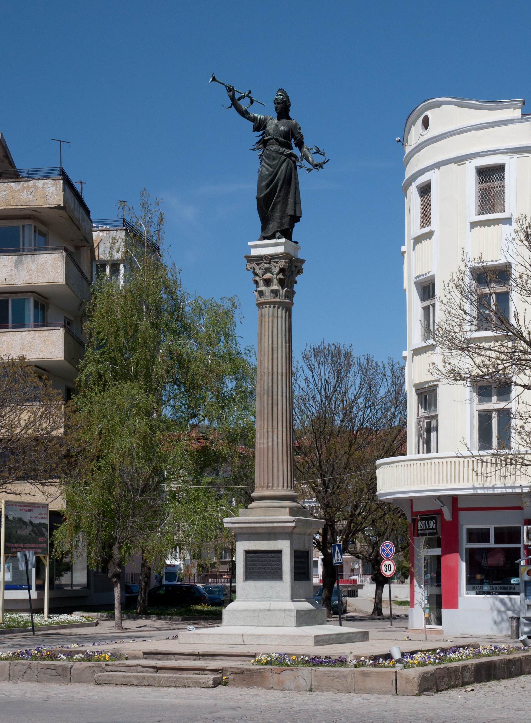 Statue of Liberty by Arnoldo Zocchi, Sevlievo, Bulgaria.